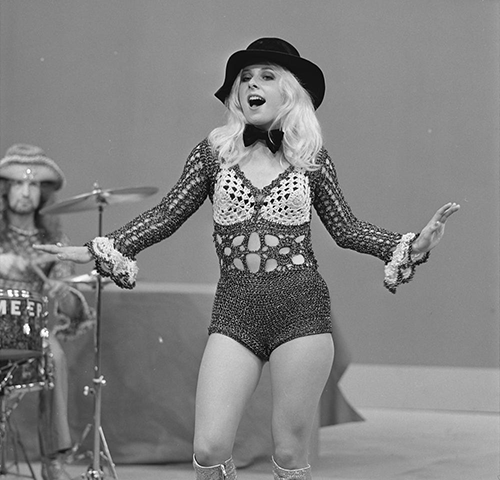 Bonnie St. Claire in AVRO's TopPop (Dutch television show) in 1974